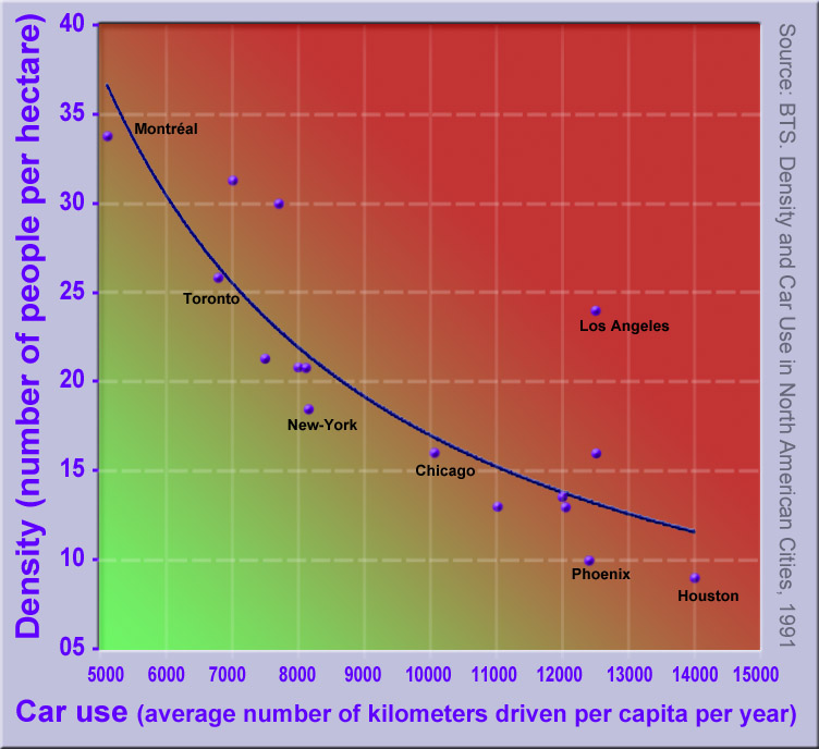 Association between urban density (nb. of people/hectare) and car use (average nb.of kmdriven per capita/year)